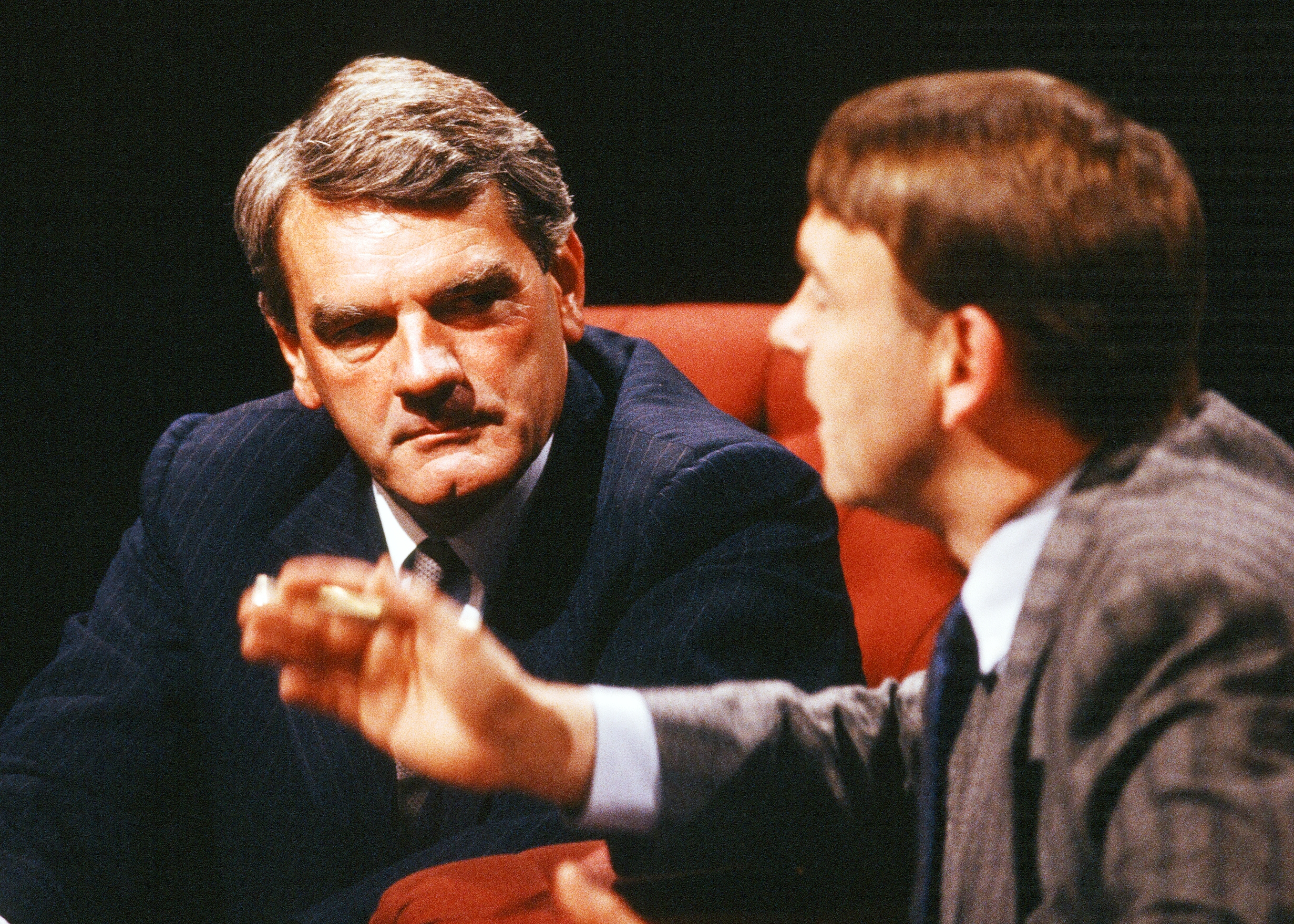 David Irving appearing on After Dark on 28 May 1988. Other guests with that week's host Trevor Hyett (in foreground) included Lord Hailsham, Anthony Montague Browne, David Reynolds and Jack Jones. More here.